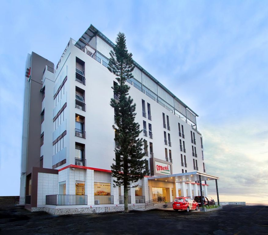 Hotel Meotel by Dafam - Purwokerto